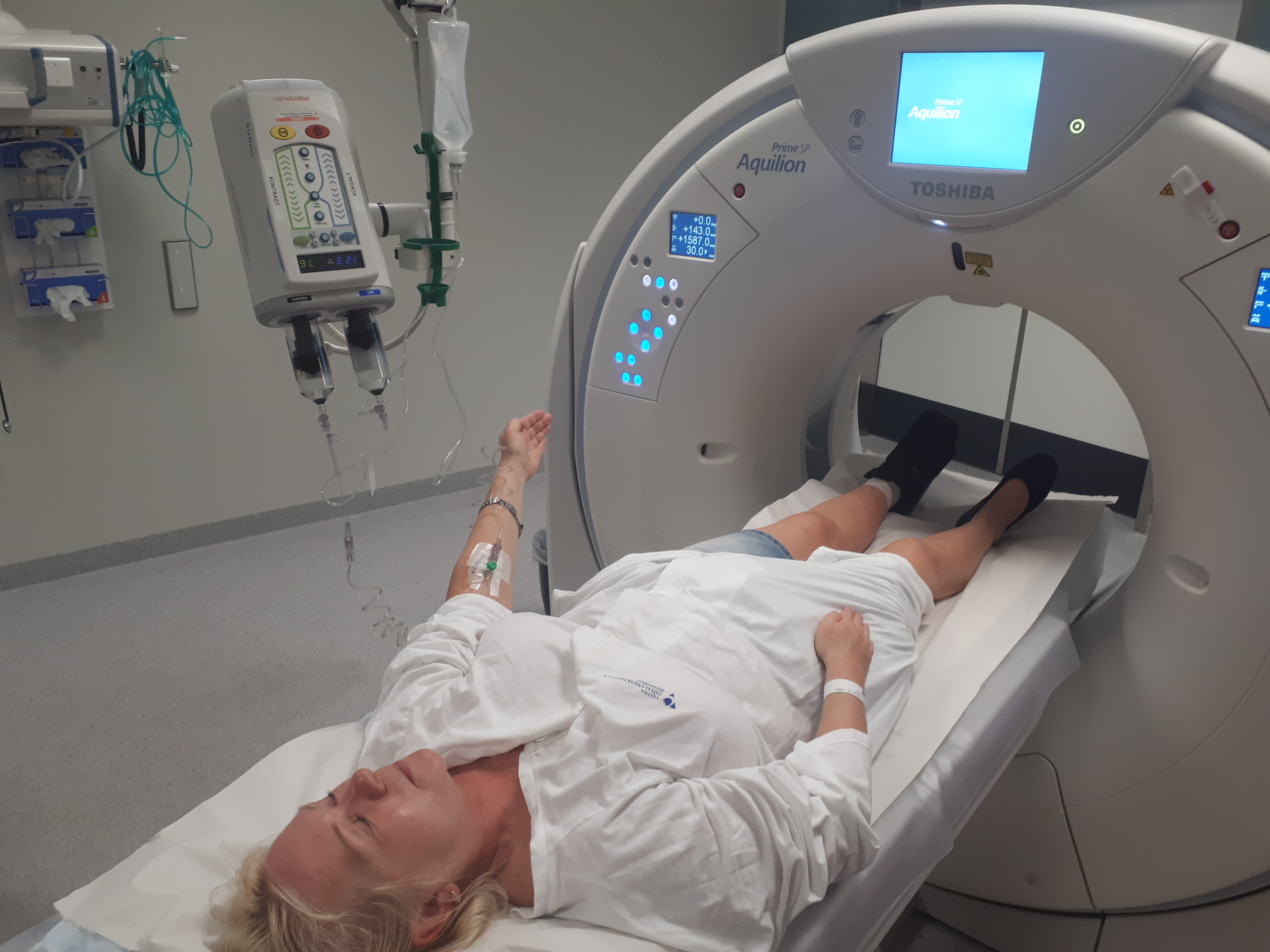 A 50 year old woman undergoing contrast CT because of suspected pulmonary embolism, which it excluded. The contrast delivery unit is seen at top left.